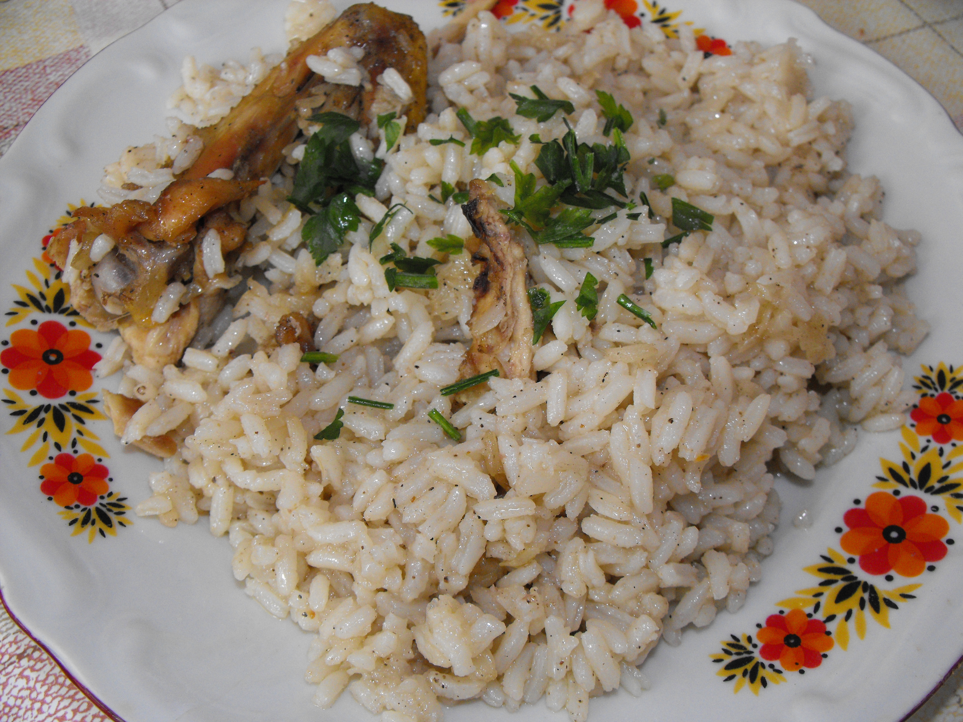 Rice and chicken